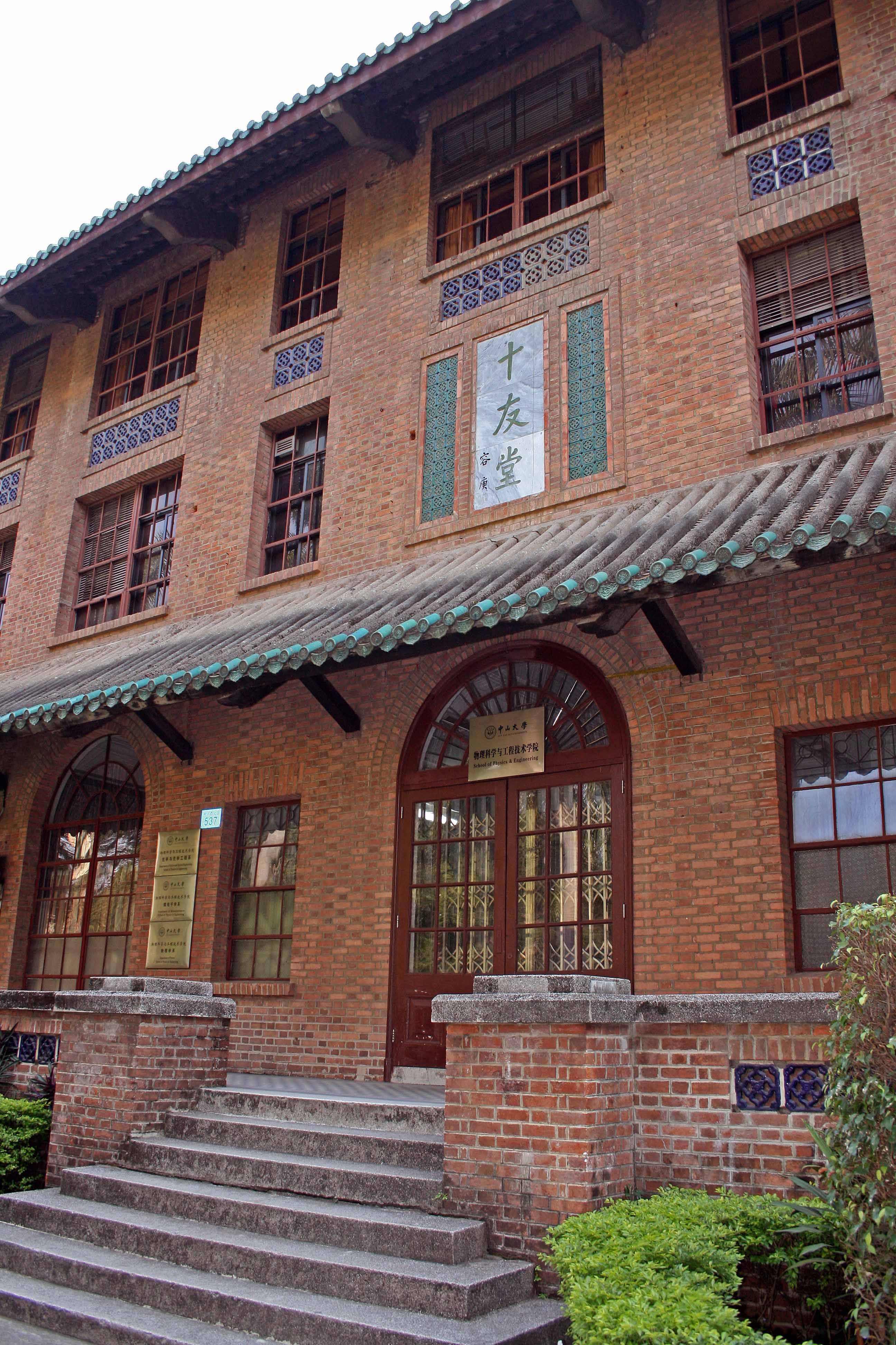 Ten Alumni Hall of Sun Yat-sen University